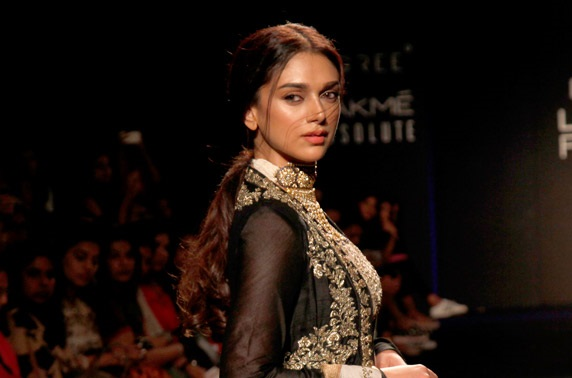 Aditi Rao Hydari walks for Jayanti Reddy at Lakme Fashion Week 2017